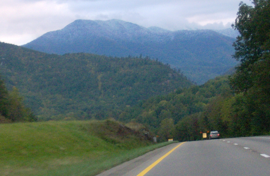 Interstate near Mile 441 in the U.S. state of Tennessee. 4928-ft/1502m Mount Cammerer, on the northern edge of the Great Smoky Mountains, rises in the distance.